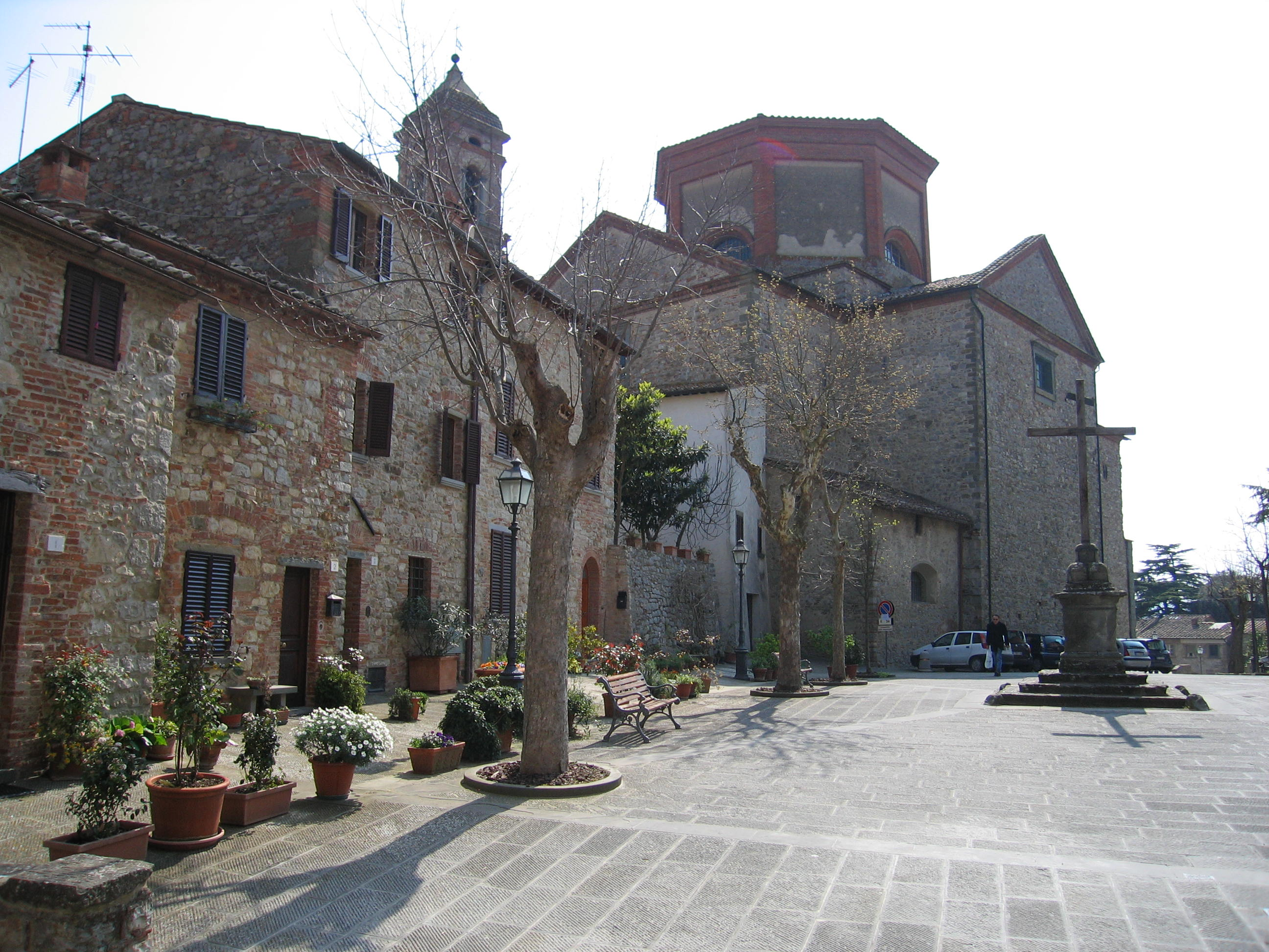 Lucignano. Photo of Piazza del tribunale with the church of S. Michele Arcangelo in the background.